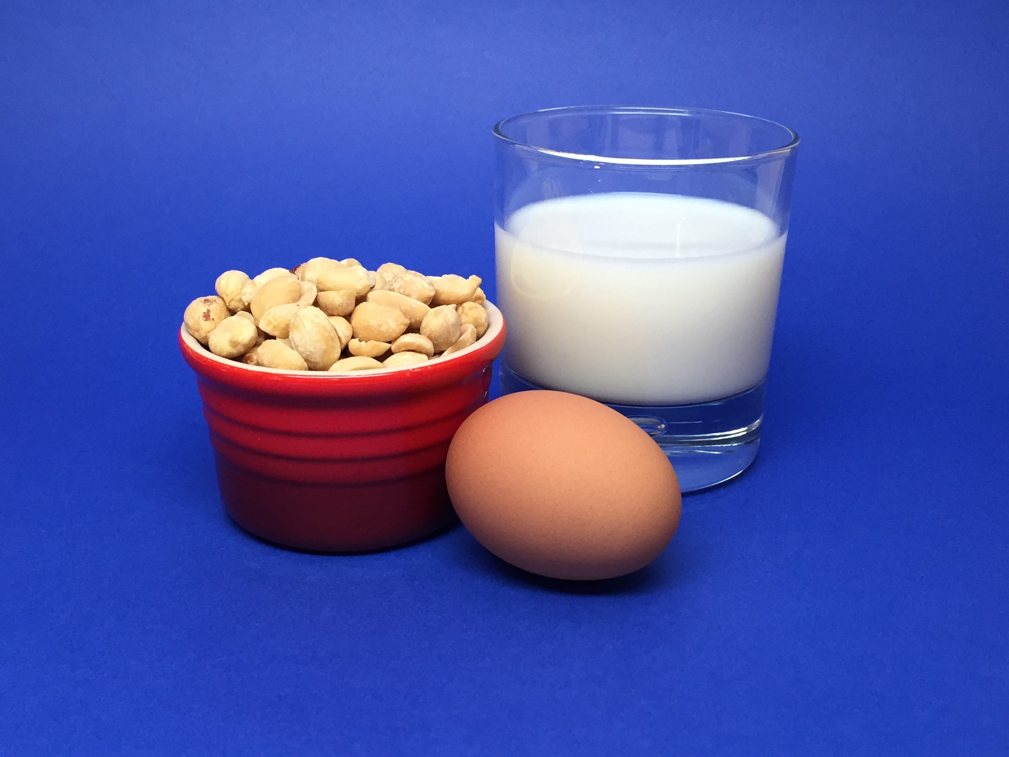 A bowl of peanuts, an egg, and a glass of milk. Credit: NIAID